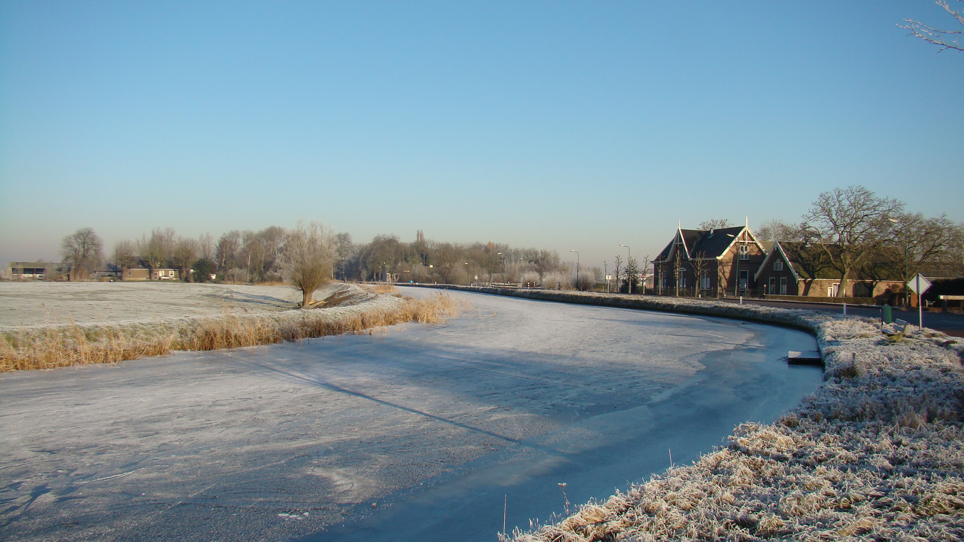 Angstel River near Baambrugge